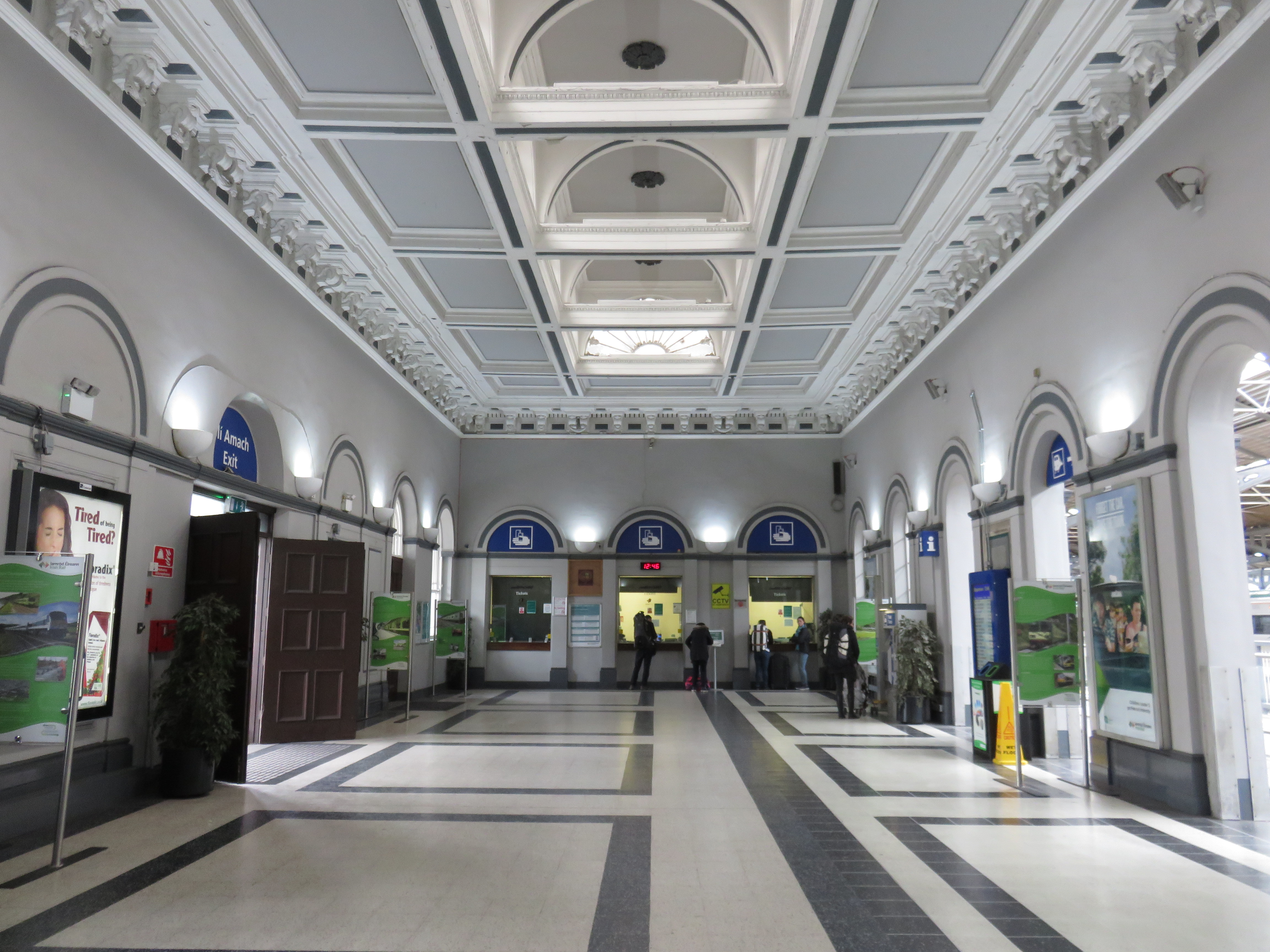 Interior ticket booths of Heuston railway station in Dublin, Ireland in 2018